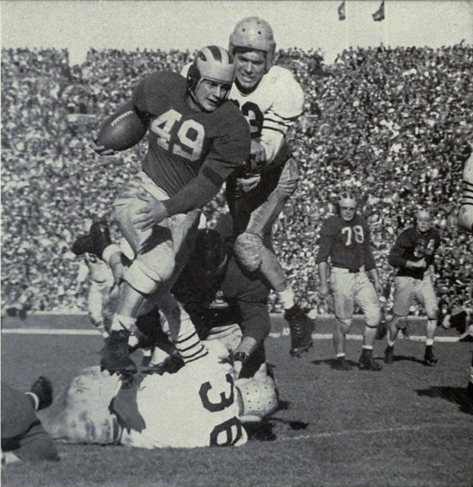 Photograph of Bob Chappuis hurdling a tackler